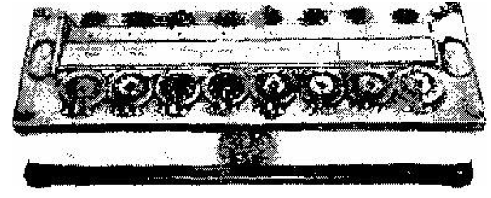 Paskalina e Blez Paskalit